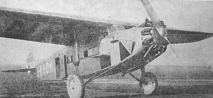 Fokker F.XIV photo from Annuaire de L'Aéronautique 1931